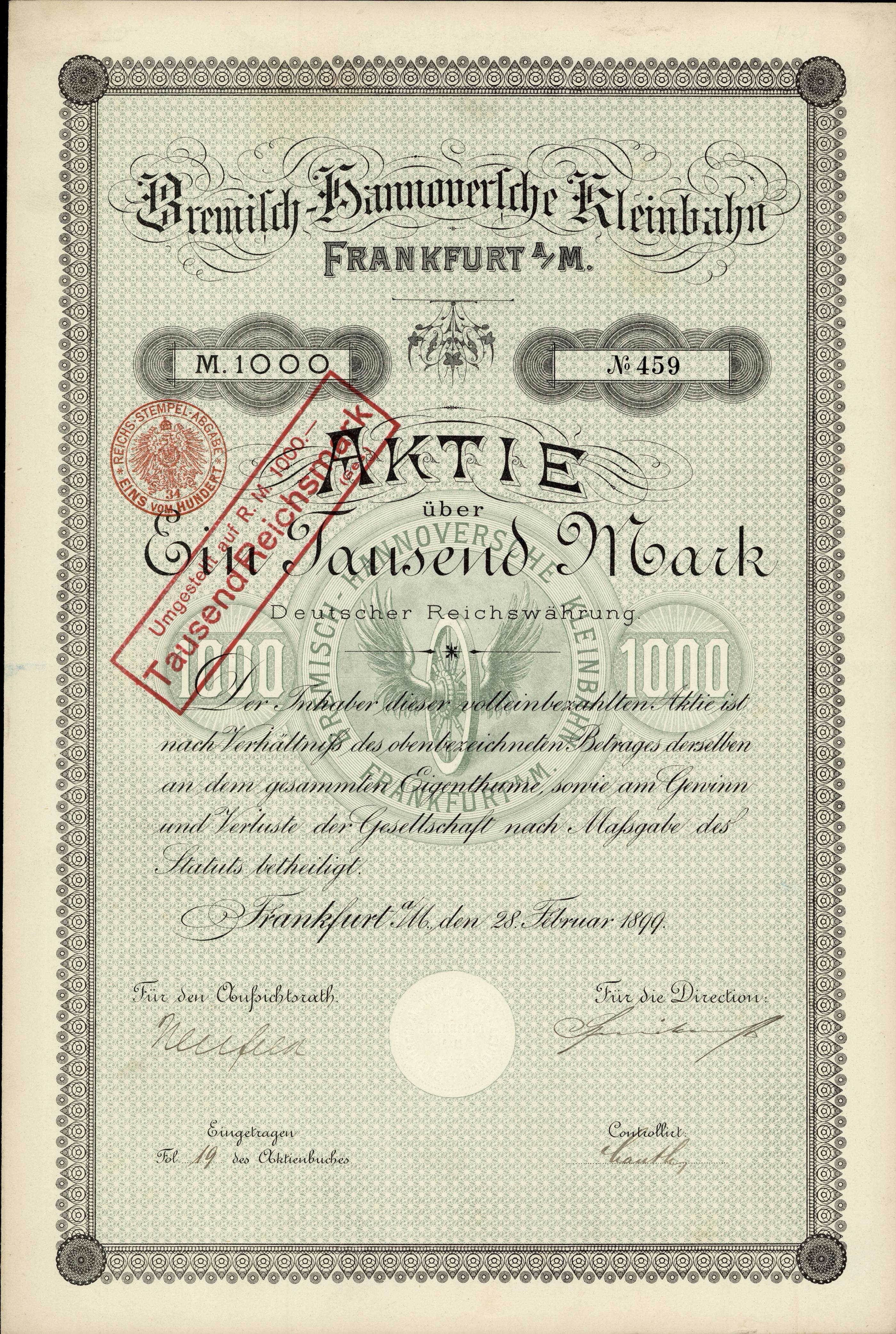 Share of the Bremisch-Hannoversche Kleinbahn, issued 28. February 1899